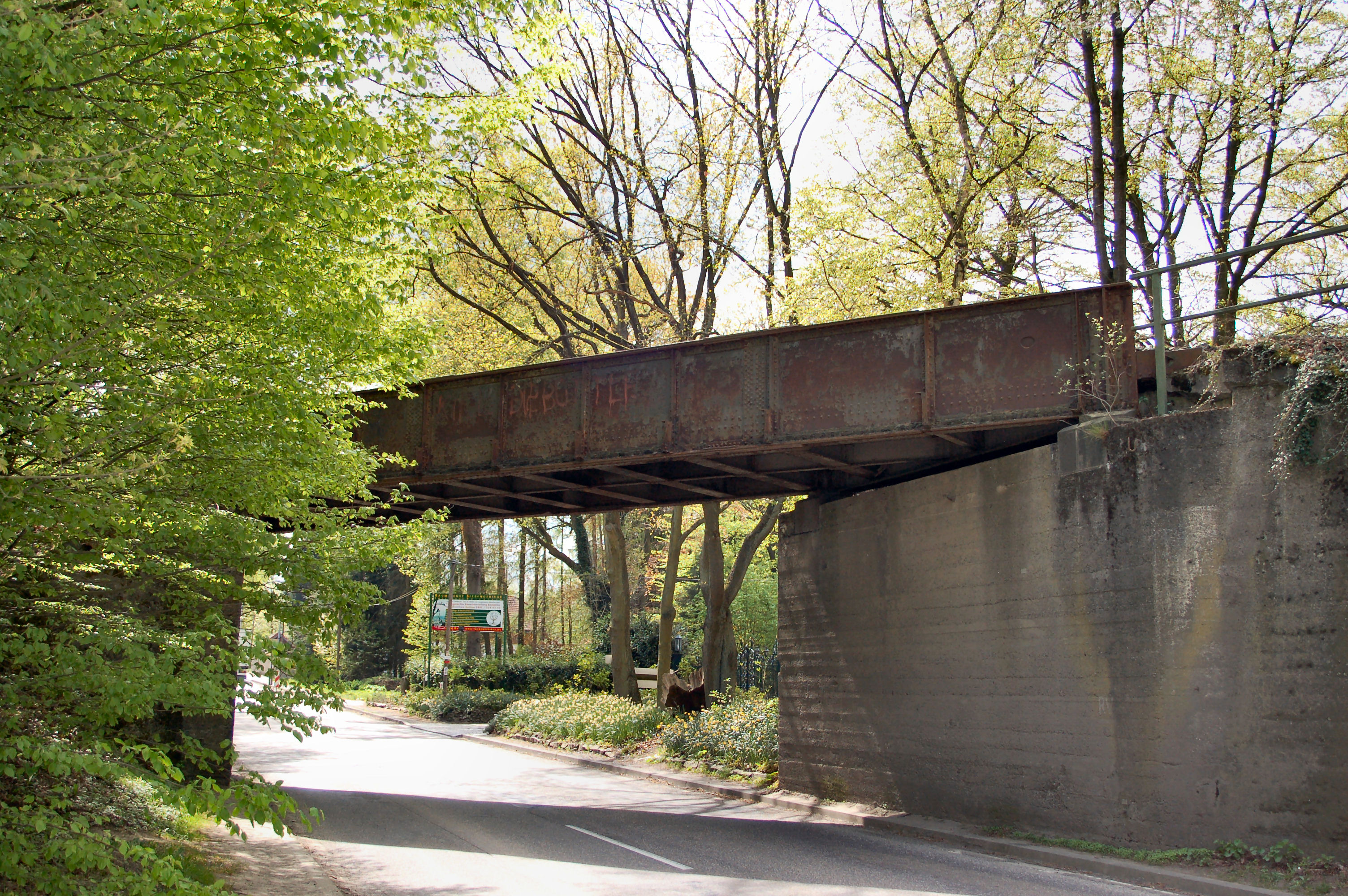 Bridge of the railway line Kasbachtalbahn in Kalenborn, municipality Vettelschoß